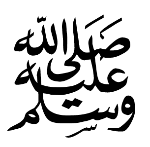 Calligraphy Arabic words meaning 'Peace and Blessings be with Him'